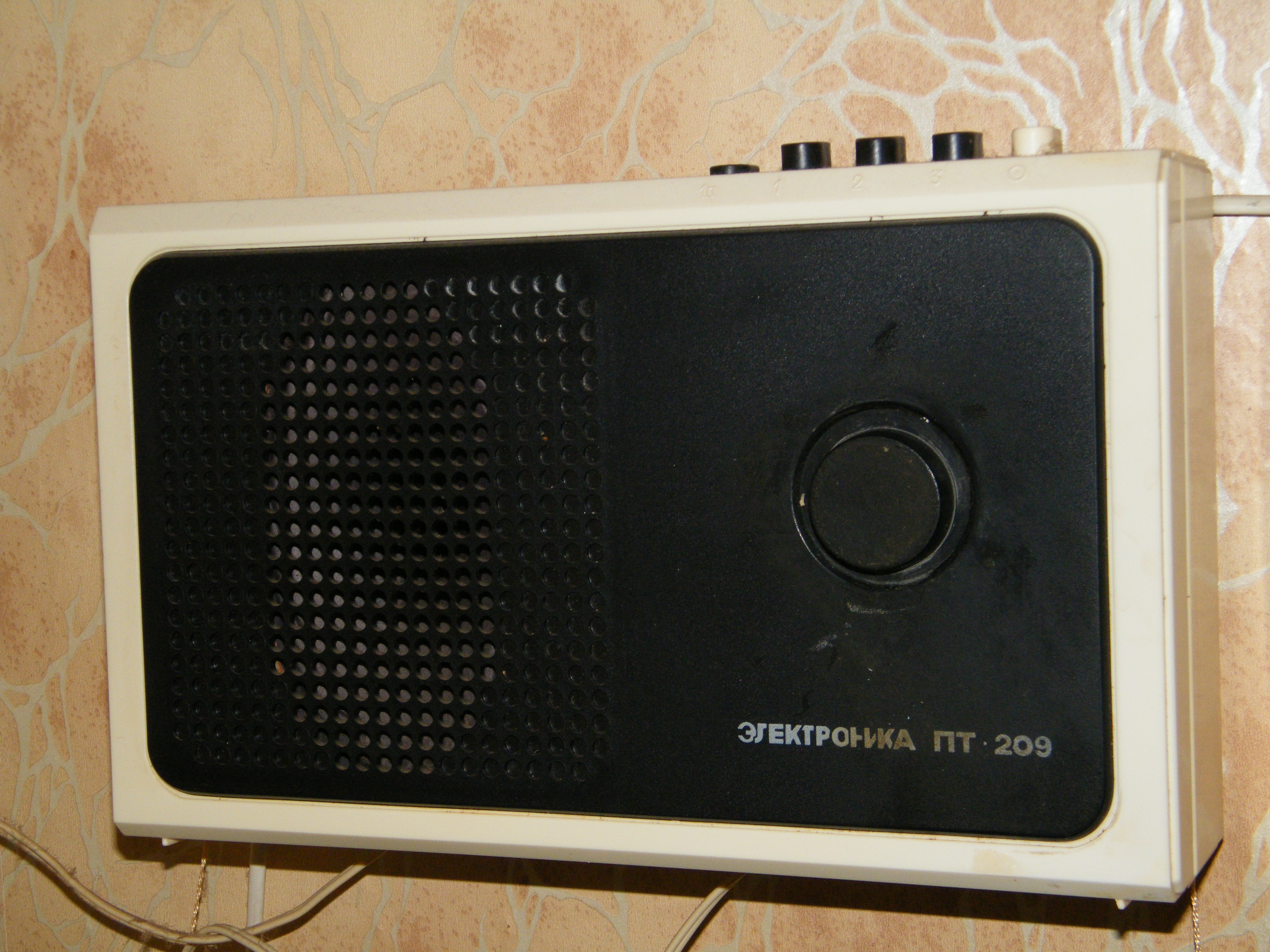 Electronica PT-209, wire broadcasting three-channel receiver. USSR, late 1980s